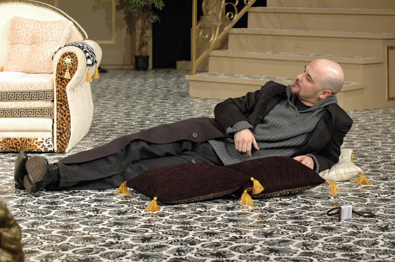 "Tartuffe", Drama of SNT, Novi Sad, 2007/08; one of the most famous theatrical comedies by Molière; directed by Dušan Petrović; actor Nenad Pećinar Srpski (latinica): "Tartif", Drama SNP, 2007/08; jedna od najpoznatijih Molijerovih komedija; u režiji Dušana Petrovića; glumac: Nenad Pećinar Српски (ћирилица): "Тартиф", Драма СНП, 2007/08; једна од најпознатијих Молијерових комедија; у режији Душана Петровића; глумац: Ненад Пећинар